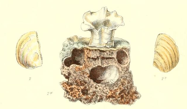 Bryopa aperta (Reeve, 1873), Clavagellidae, Bivalvia, Mollusca, from Reeve (1873 (Monograph of the Genus Clavagella), pl.2 figs2,2a,b)